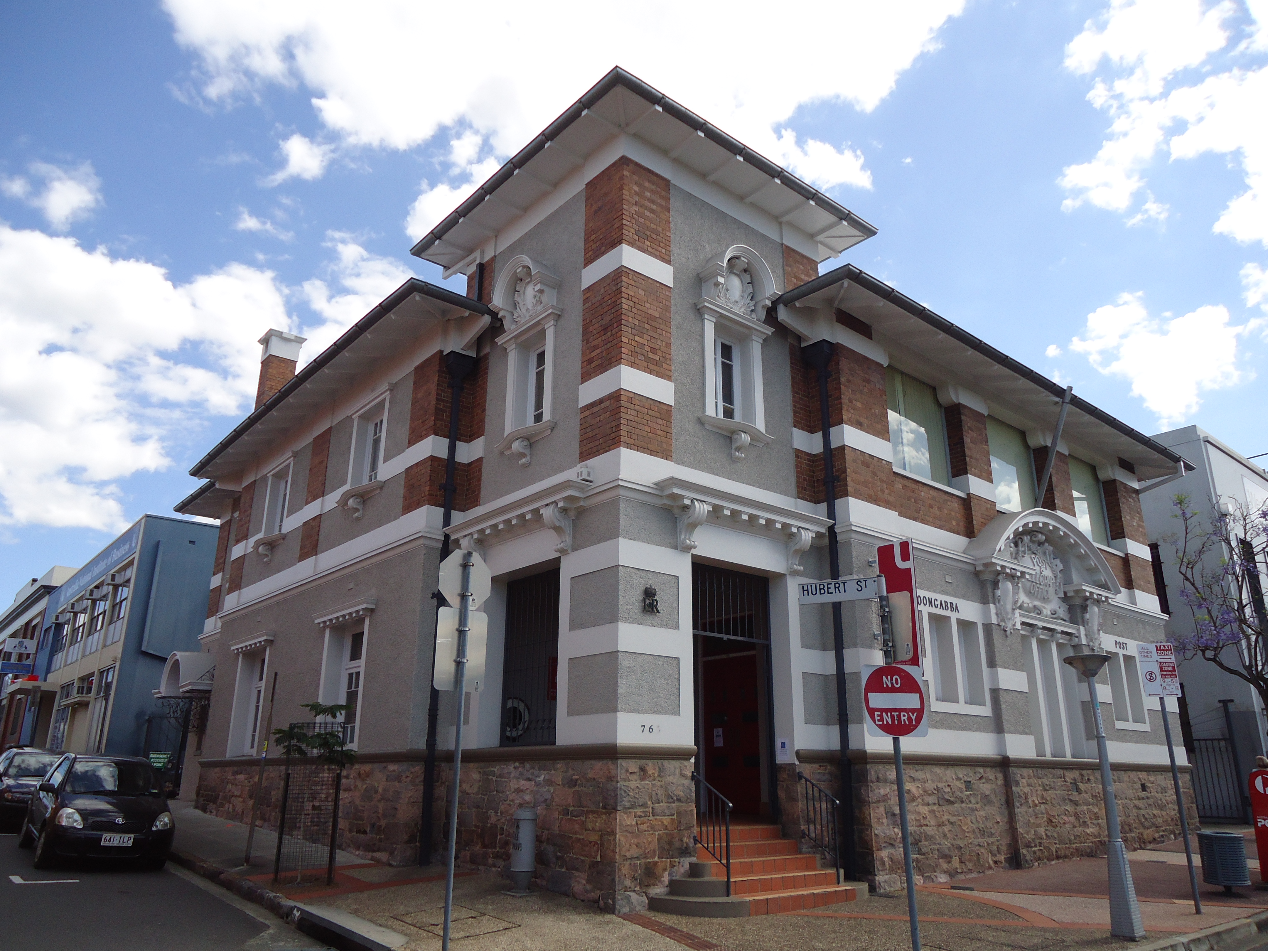 Architect: T. Pye